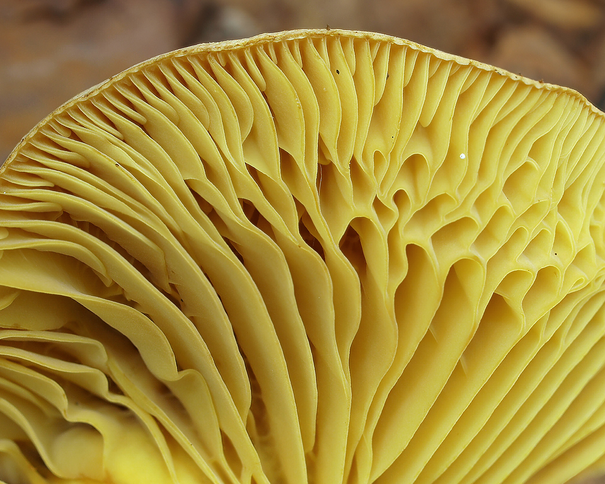 Gills of Tricholoma sulphureum